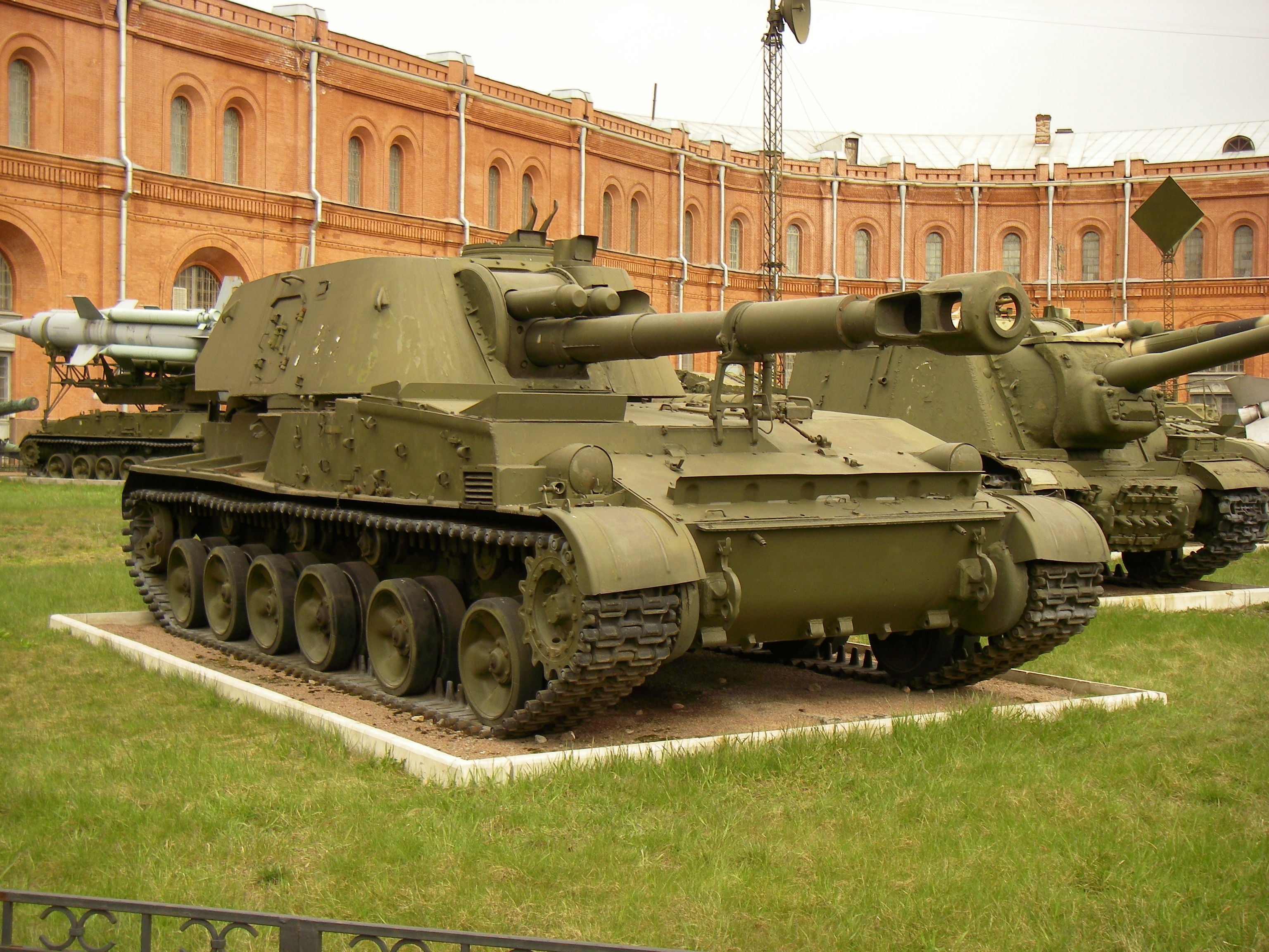 152-mm self-propelled howitzer 2S3 «Akatsiya» in Saint-Petersburg Artillery museum